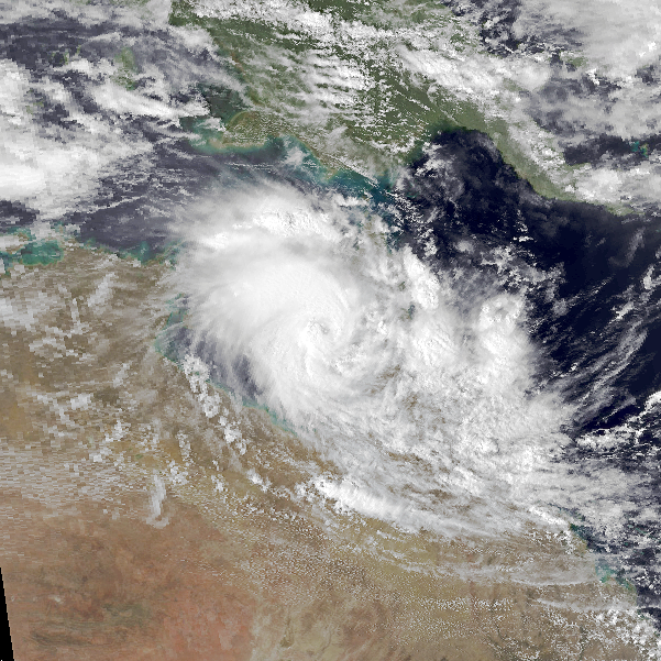 Tropical Cyclone Peter on December 31, 1978. At the time Peter had winds of 60 knts (70 mph, 110 kph), 1-min sustained and a pressure of 980 mbar. This image was taken by the NOAA-5 Satellite.